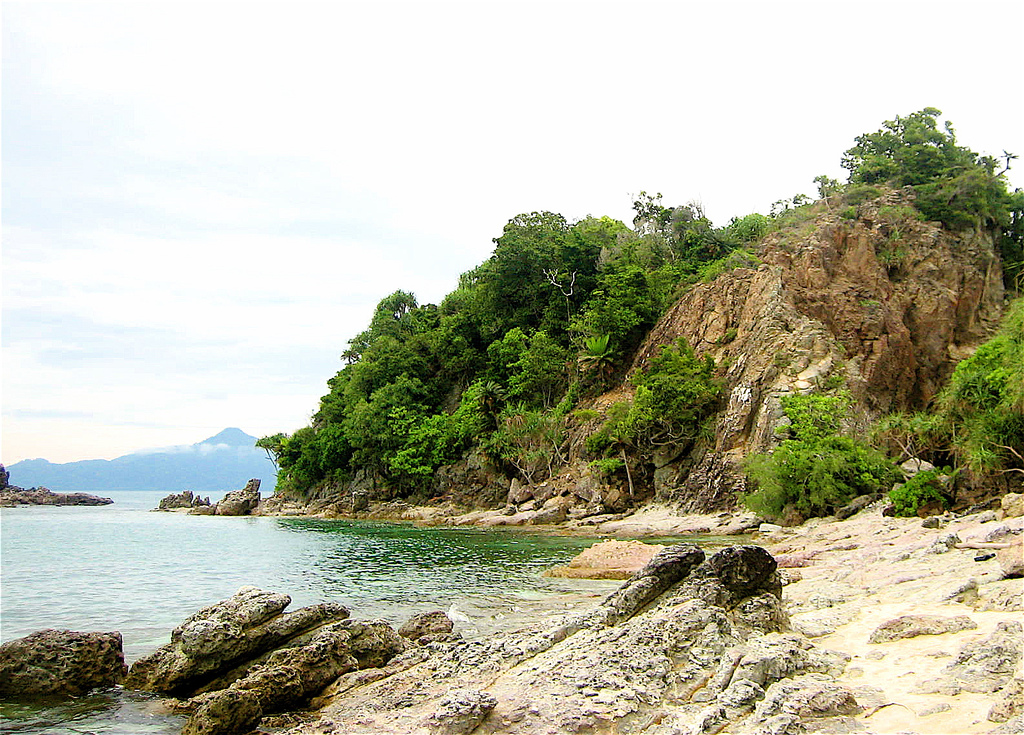 Beach near Mersing. One of the little bays for casual snorkeling.